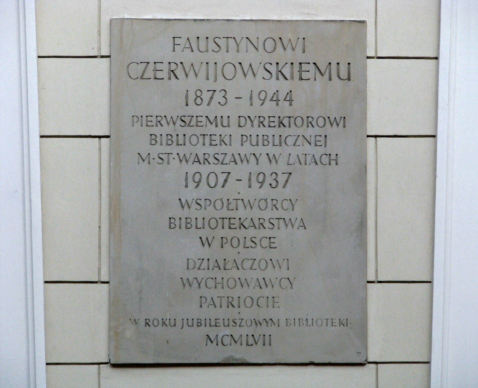 Koszykowa Street, Warsaw, Poland. Memeory table on the Library building.